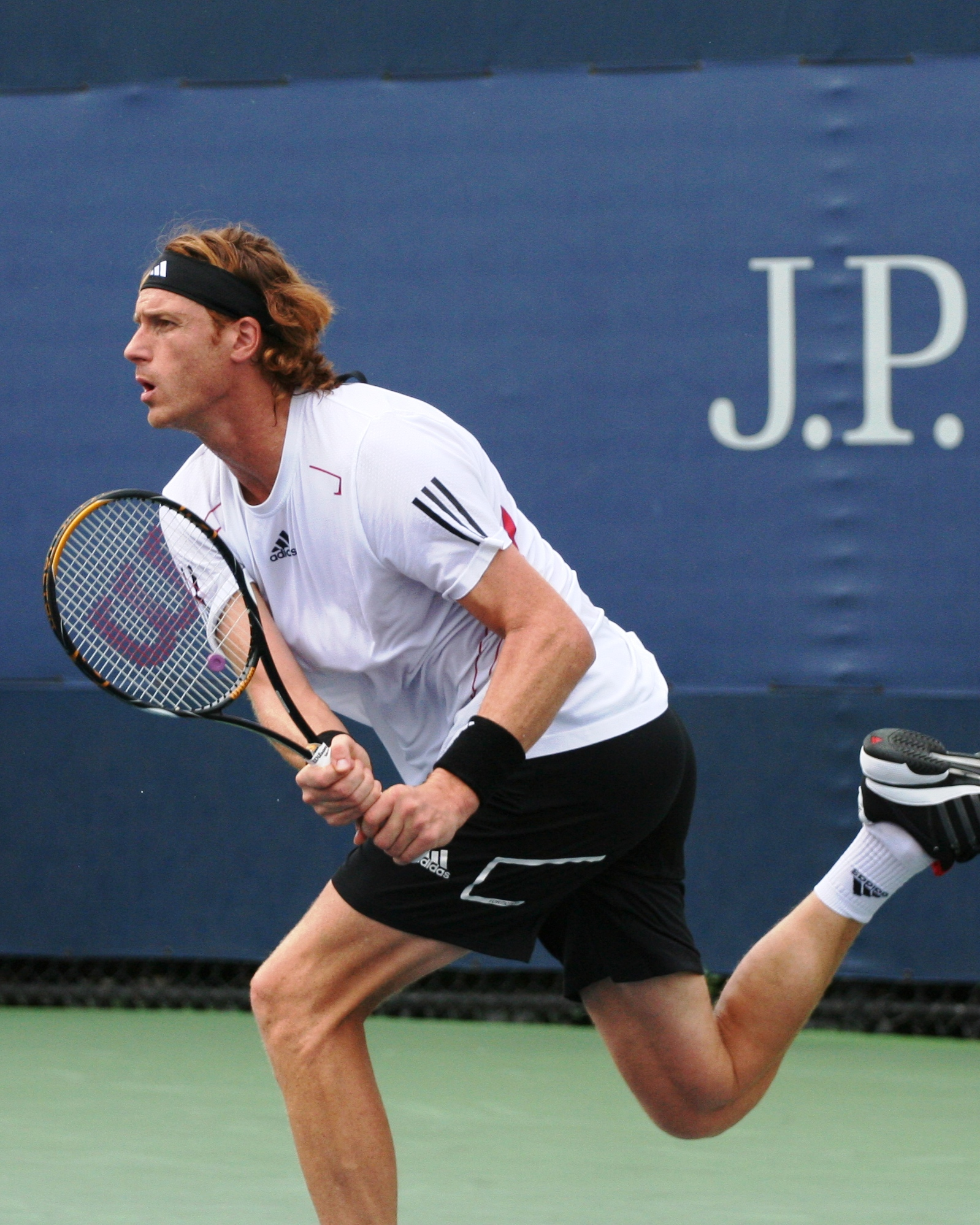 U.S. Open Friday, Sept. 3, 2010